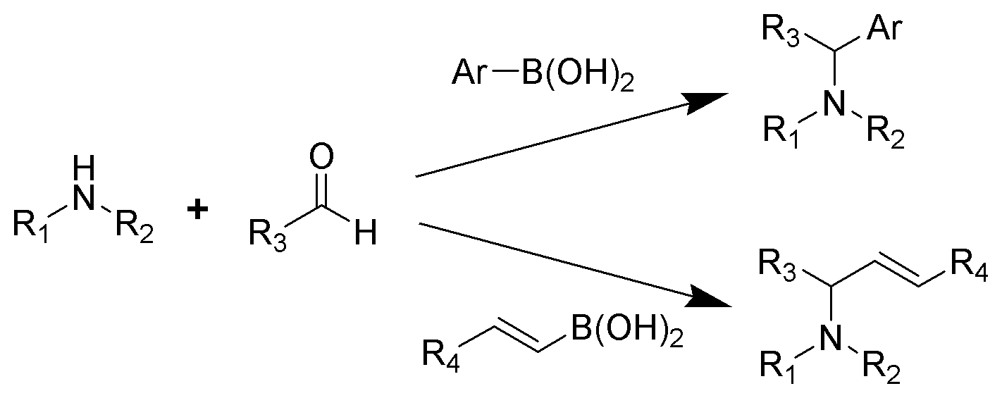 Description: Reaction scheme of the Petasis reaction. Author, date of creation: selfmade by ~K, 01 January 2006. Source: - Copyright: Public domain. (PD) Comments: high-resolution b/w PNG; ChemDraw / The GIMP.